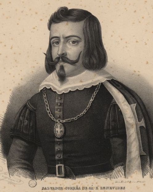 Salvador Correia de Sá e Benevides (1602-1688) was a Portuguese soldier and politician. He was governor of Rio de Janeiro and Angola.